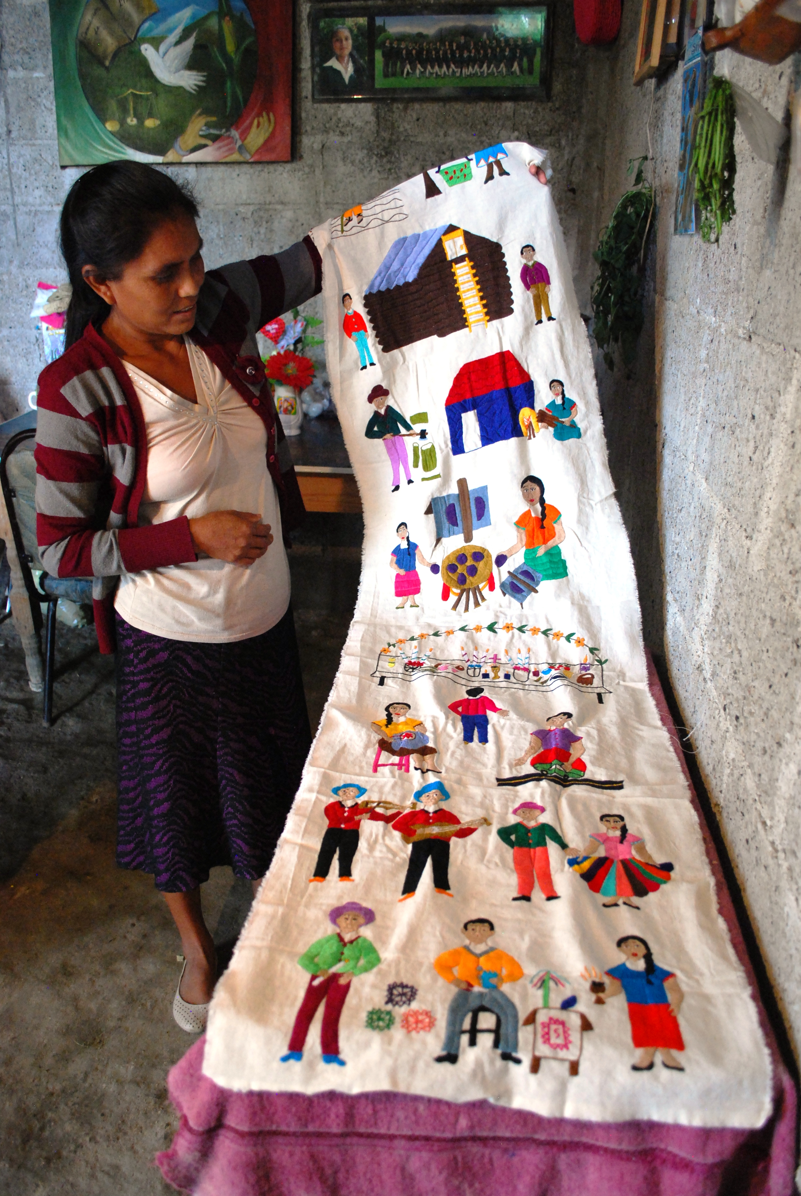 Artisan Elvira Clemente Gomez with a special order piece depicting life in the coffee-growing region of the Sierra Madre Oriental at her home in Santa Monica, Tenango de Doria, Hidalgo, Mexico